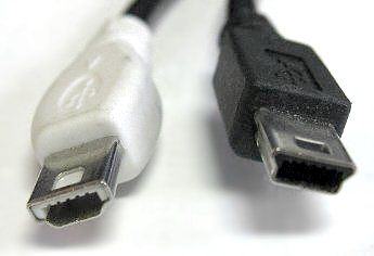 A USB MINI A-B cable showing the shape difference (a=rounded b=square) and the additional plastic insert in the mini A. The mini-A plug is white; the mini-B plug is black.